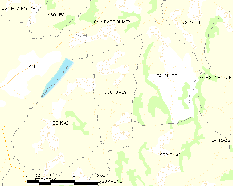 Map of French municipality Coutures